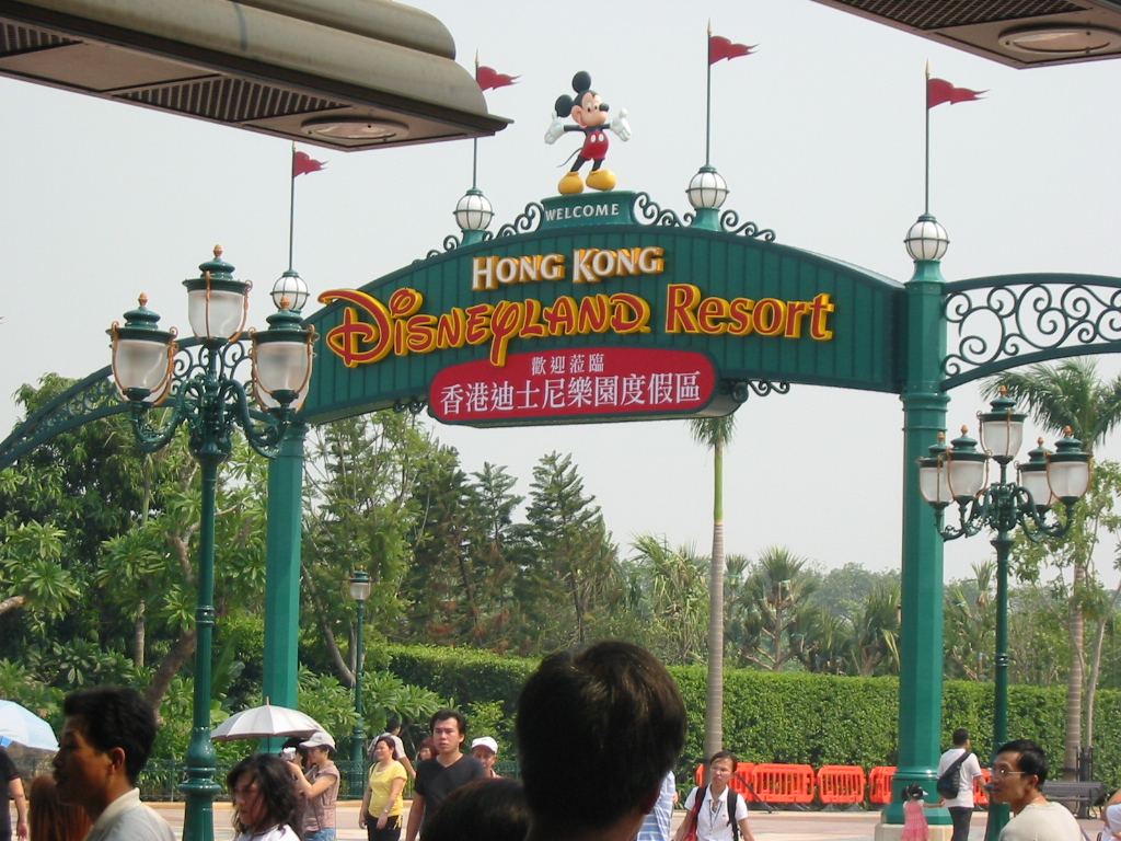 從迪士尼車站拍攝的香港迪士尼度假區入口 (攝影: Wrightbus) Main entrance of HK Disneyland Resort. Photo taken by Wrightbus.